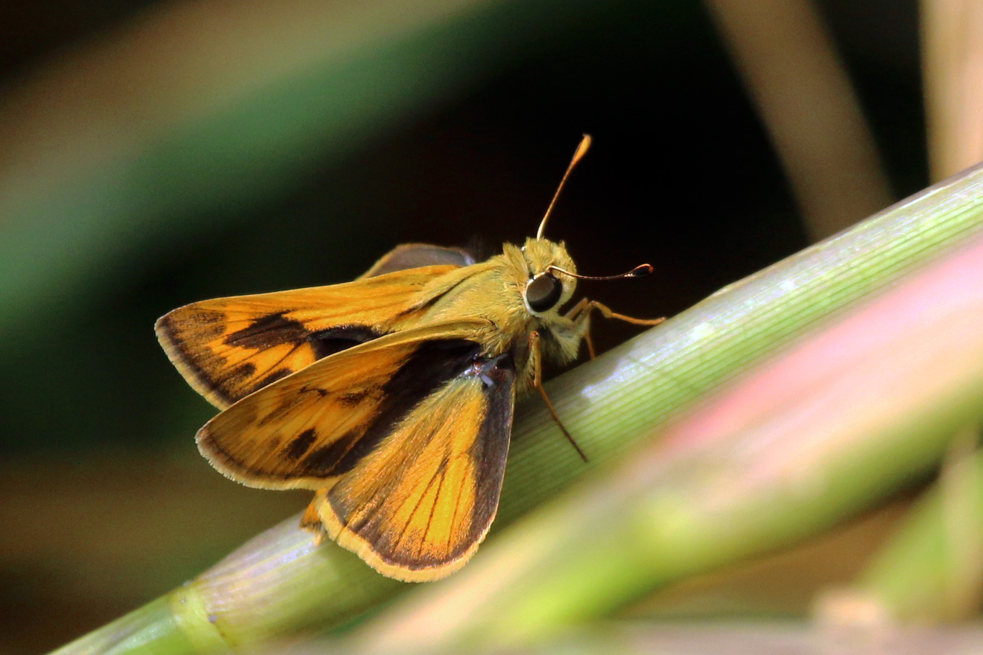 Whirlabout butterfly (Polites vibex praeceps) male, Little Tobago